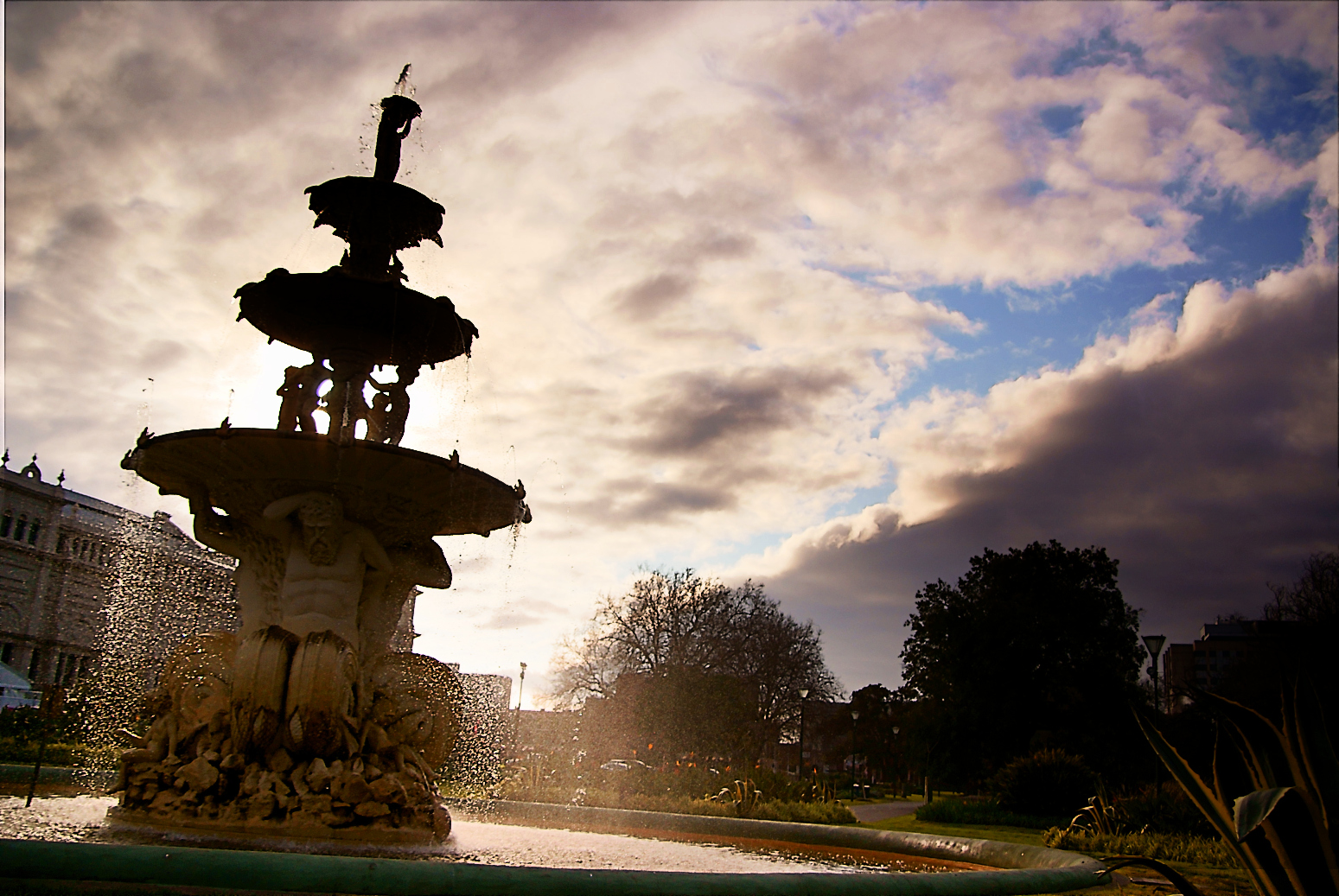 CarltonGardenFountain